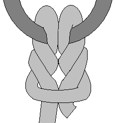 Sketch of the cat's paw (knot), made by Securiger on 25 May 2004.